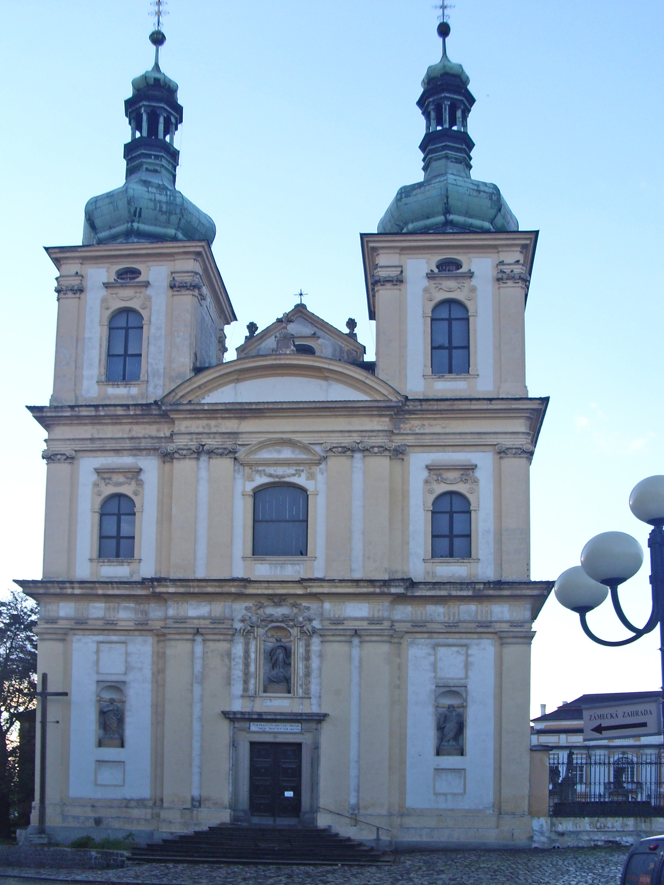 Church of Lady Day in Duchcov - front side